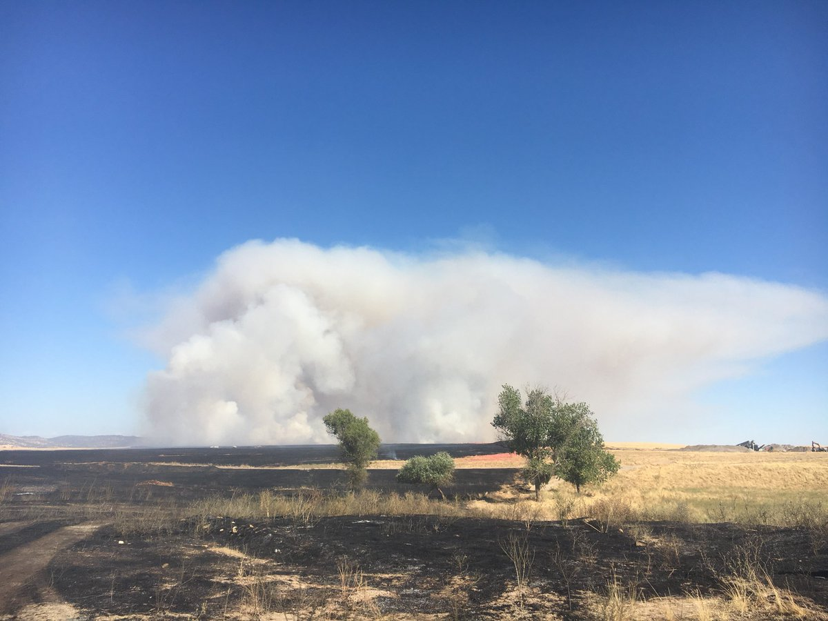 WaverlyFire is now 3500 acres. Burning to the southwest toward Hwy 4. Please be cautious driving on Hwy 4. Keep your eyes open for emergency equipment.